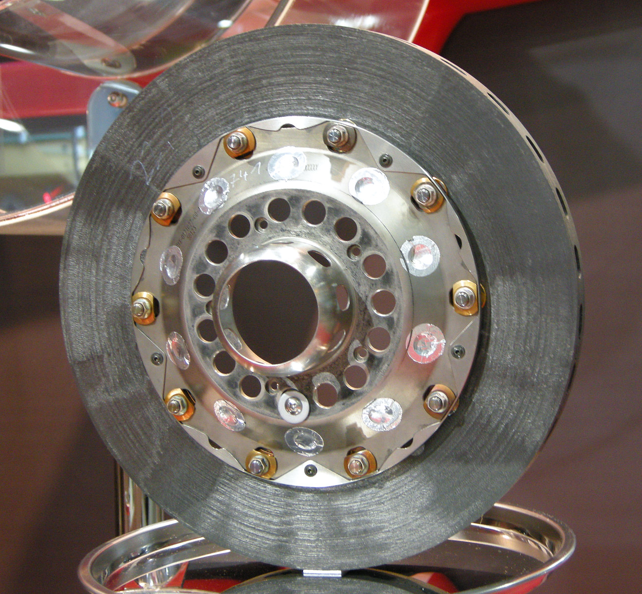 Toyota TF103 Front Carbon Brake Disc (probably supplied by Brembo) photographed in aMLUX (Toshima, Tokyo)